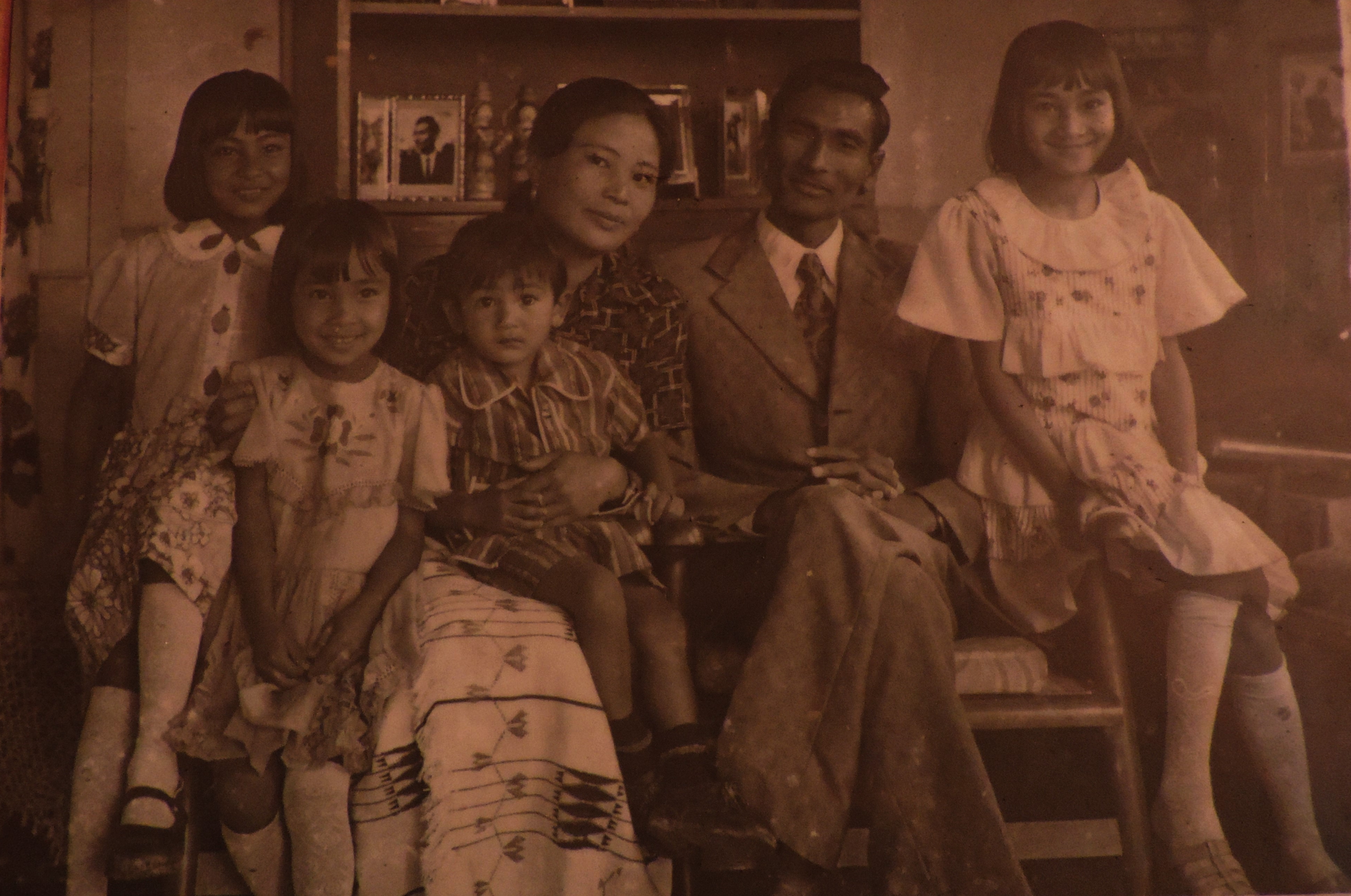 Gujarati writer Kishor Jadav with his family